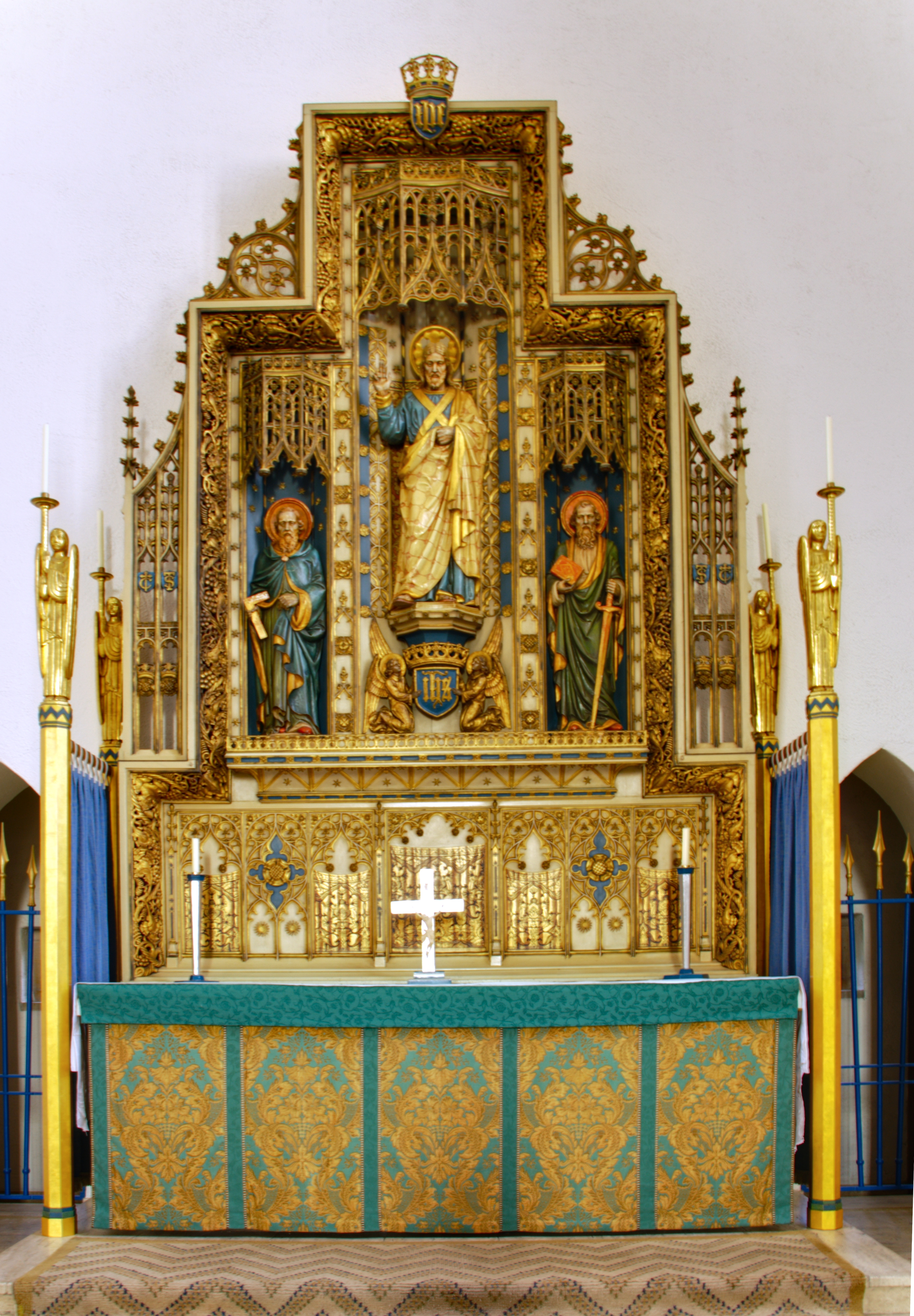 Altar and reredos of St. Thomas the Apostle, Boston Road, Hanwell, London W7.